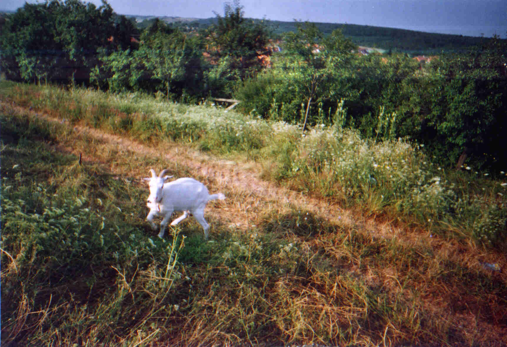 U don't need to care much on goat; just leave him on the field